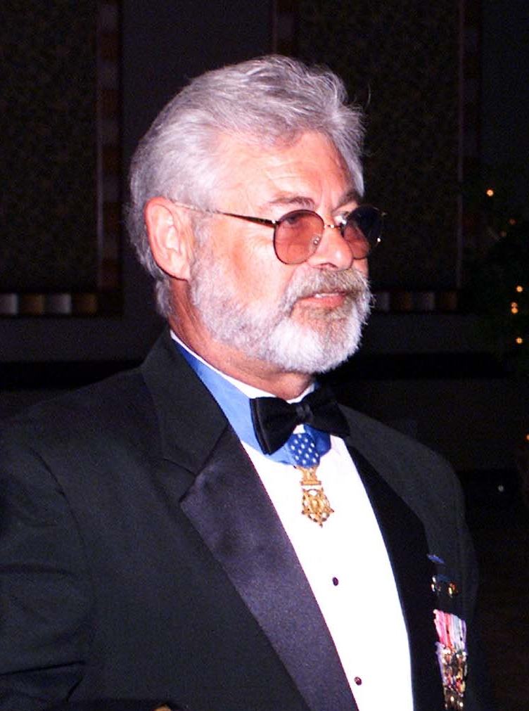 Vietnam War Medal of Honor recipient retired U.S. Army Sergeant Major Jon Cavaiani during the Marine Corps Law Enforcement Foundation's 10th Annual Invitational Gala in Atlantic City, New Jersey.